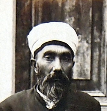 Portrait of Edirne mufti Osman Hilmi